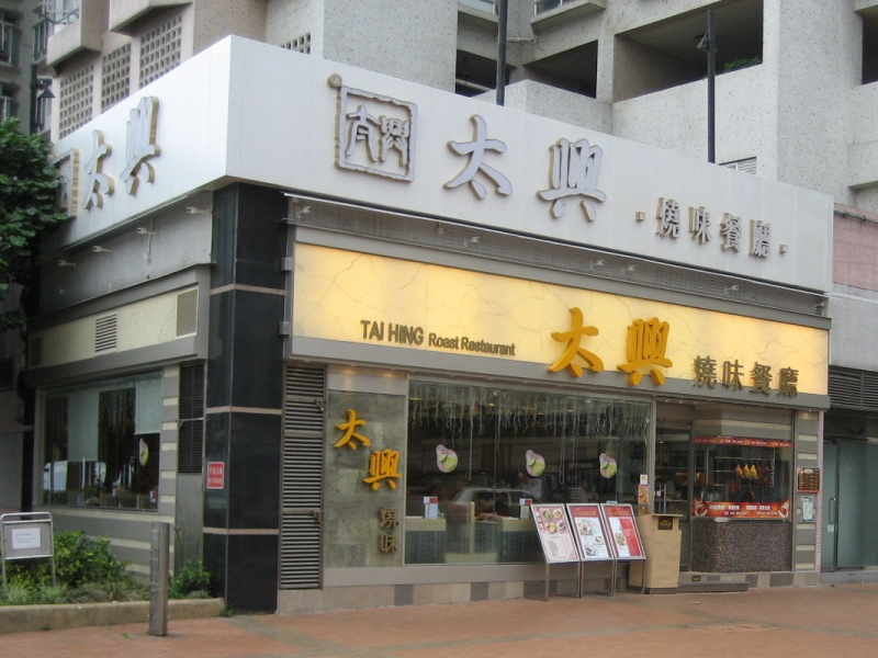 Tai Hing Roast Restaurant (Tsing Yi Outlet)